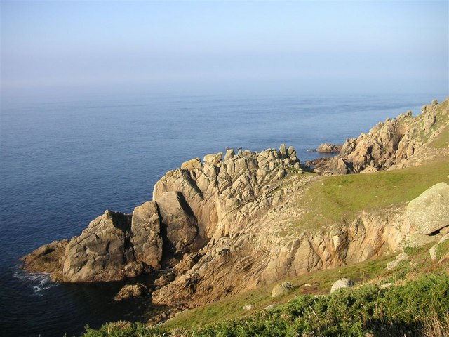 Headland between Hella Point and Gwennap Head There were basking sharks galore off the headland on this beautiful September morning.